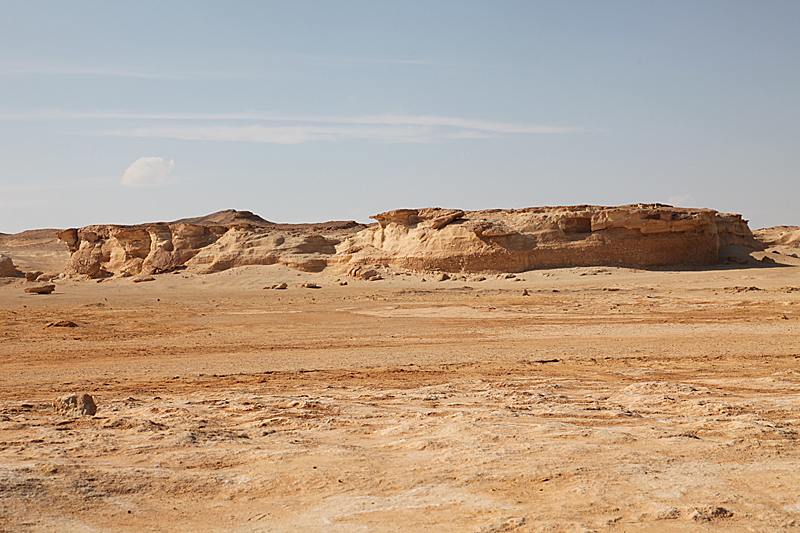 Landscape north-west of Qarat Umm el-Sugheir, Siwa depression, Egypt